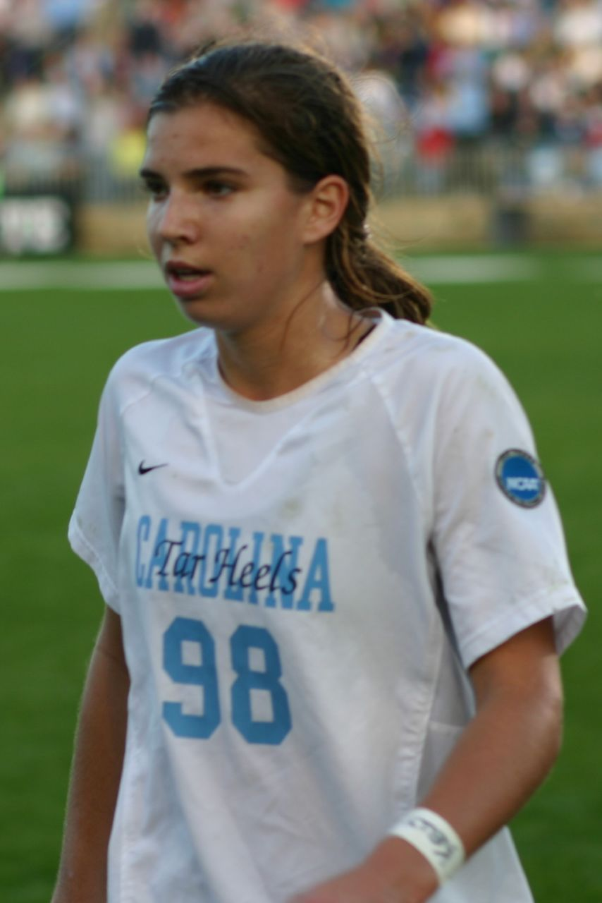 North Carolina Tar Heels #98 Tobin Heath during the semifinal of the 2006 Women's College Cup on Friday, December 1st at SAS Soccer Park in Cary, NC